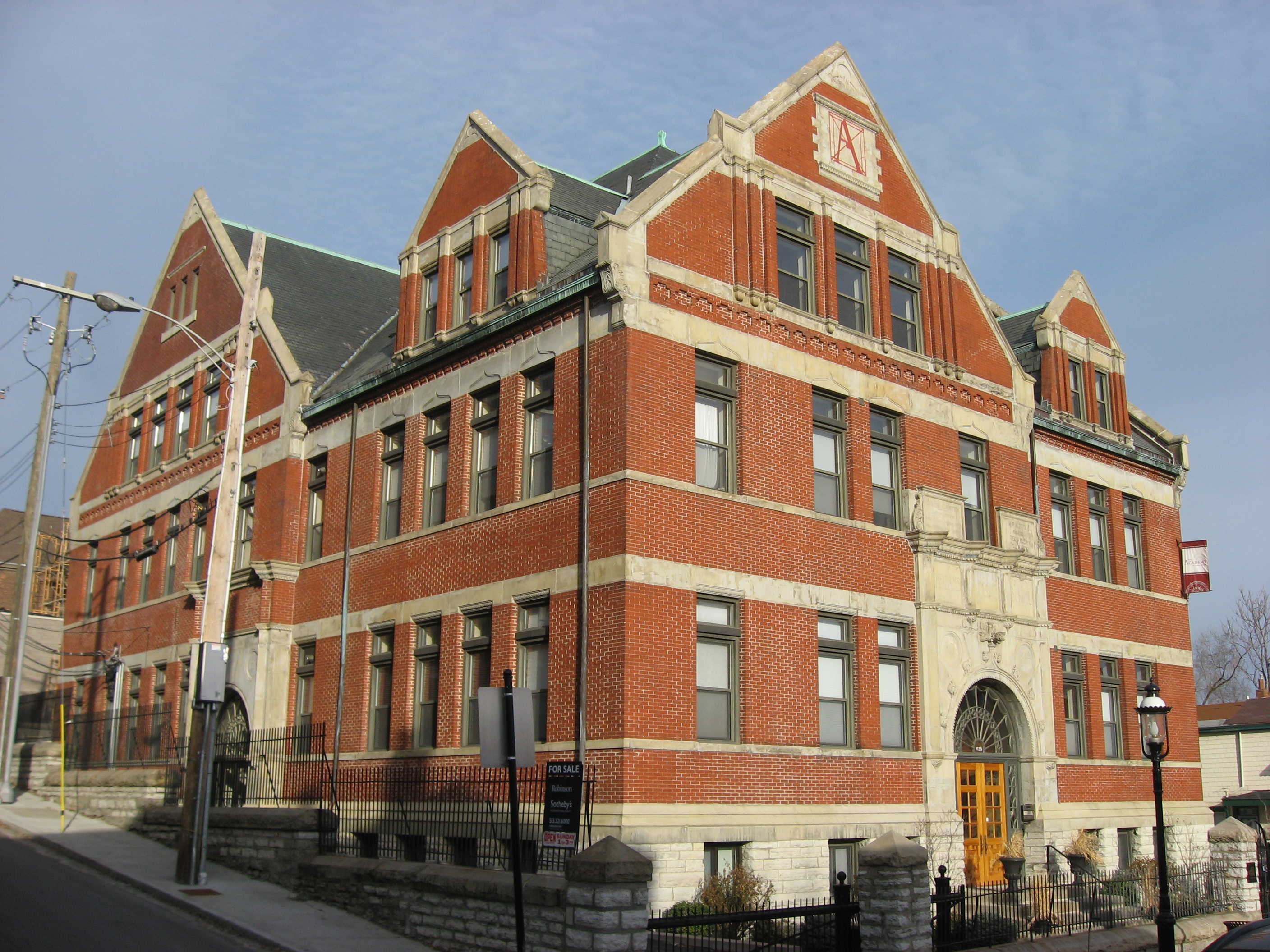 Southern side and rear of the former Mount Adams Public School, located at 1125 St. Gregory Street in the Mount Adams neighborhood of Cincinnati, Ohio, United States. Built in 1894, it is listed on the National Register of Historic Places.